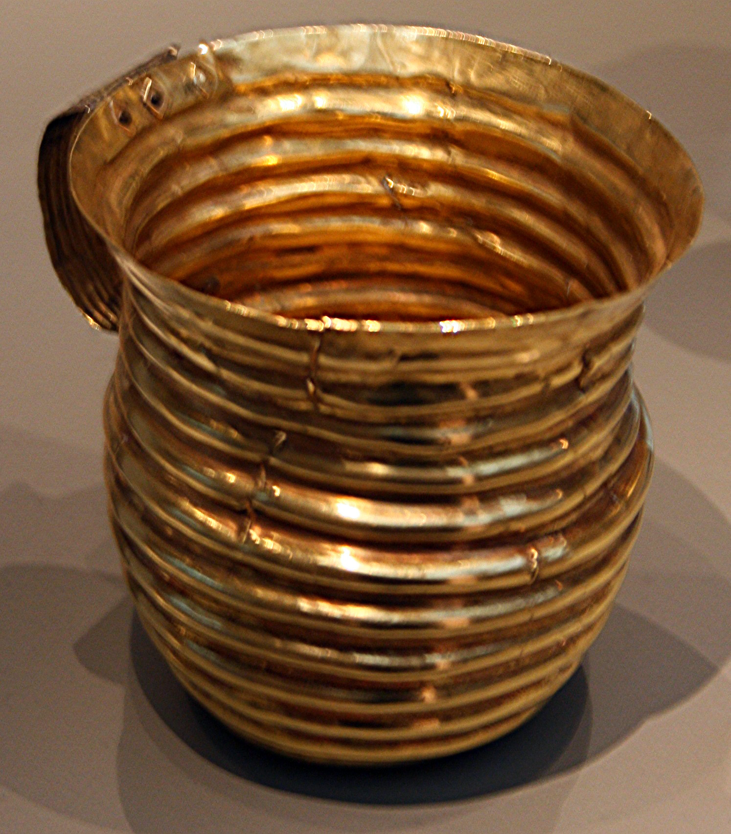 The Rillaton cup at the British Museum. Loan from the Royal Collection.